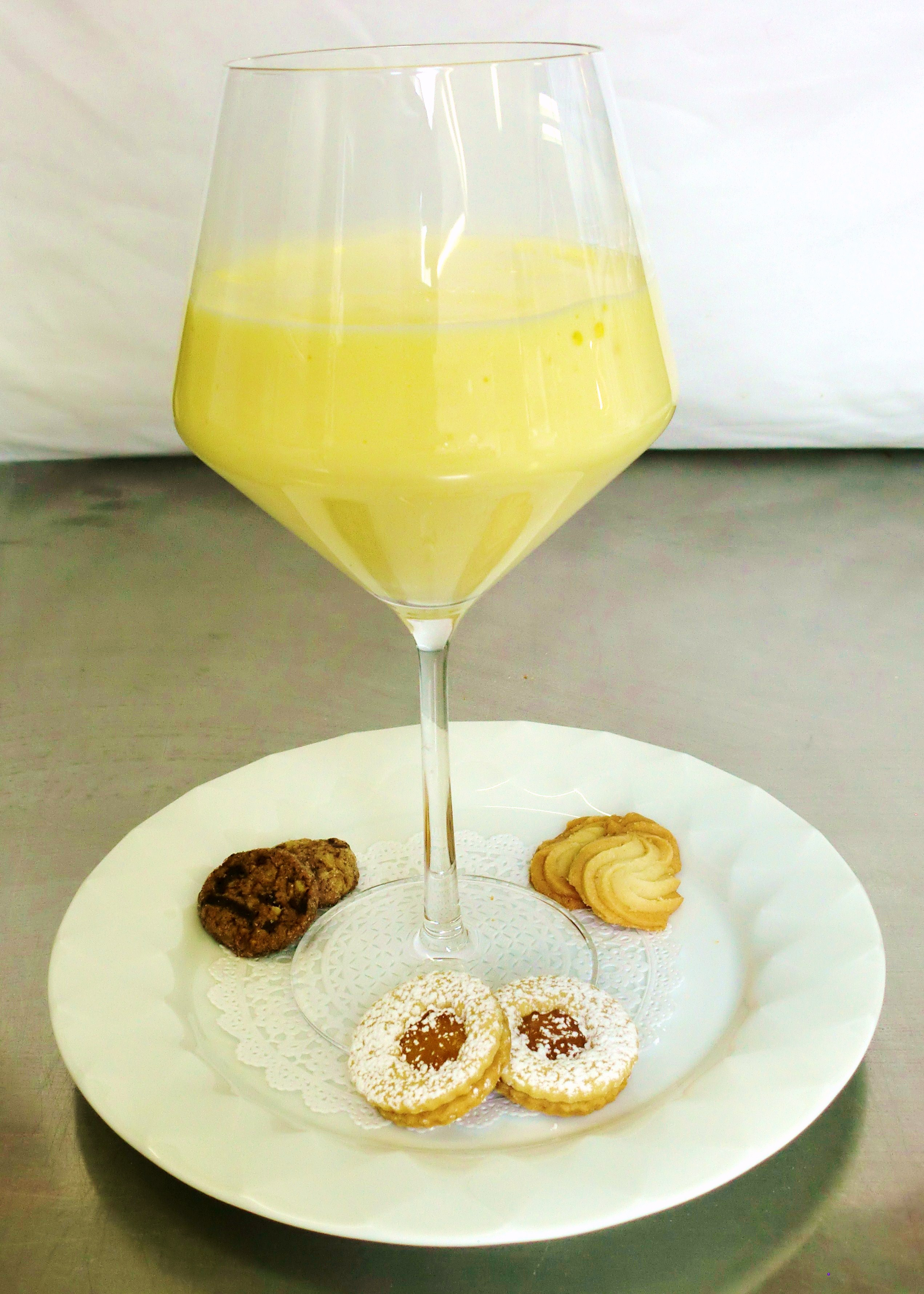 Zabaione with cookies